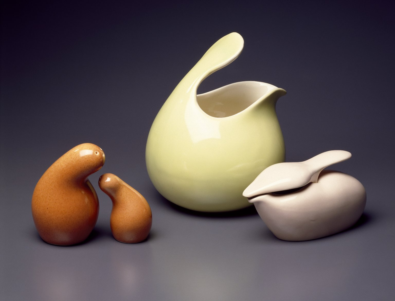 Red Wing Pottery pieces from "Town and Country" collection by designer Eva Zeisel (glazed earthenware, ca. 1945).